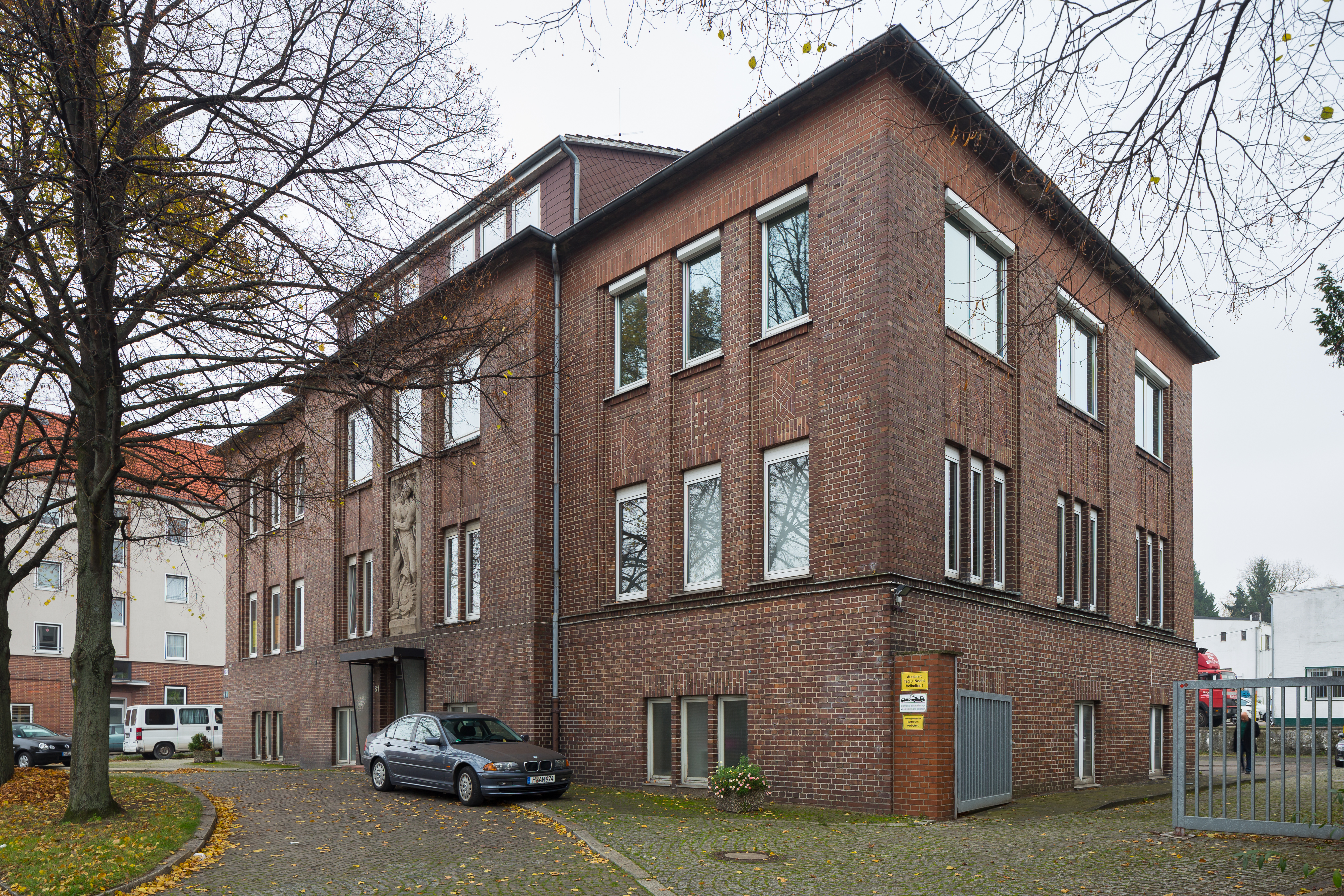 Former administration building of the Linden iron and steel factory located at Davenstedter Strasse in Hanover, Germany.